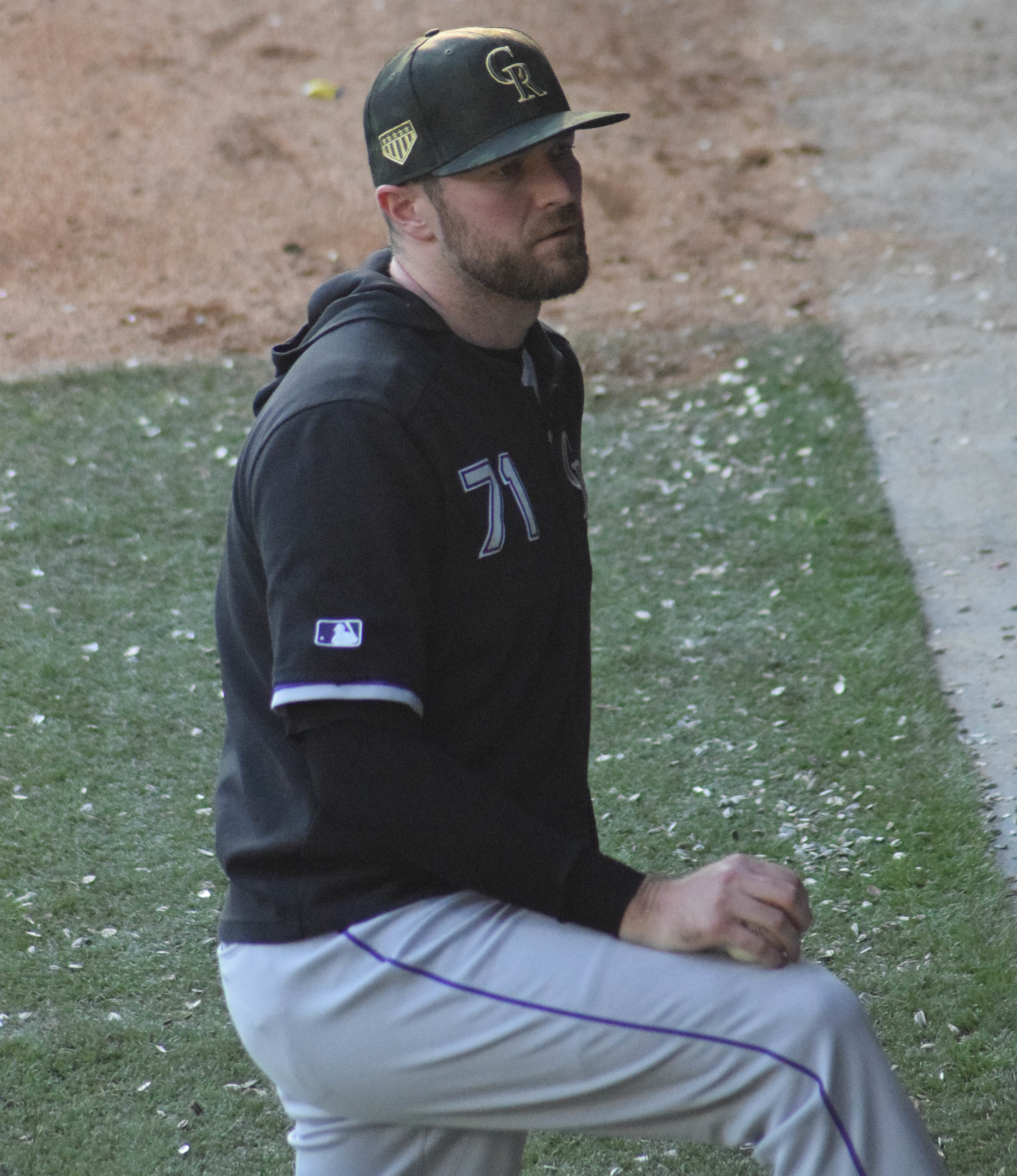 Wade Davis of the Colorado Rockies in the bullpen at Citizens Bank Park in Philadelphia in 2019